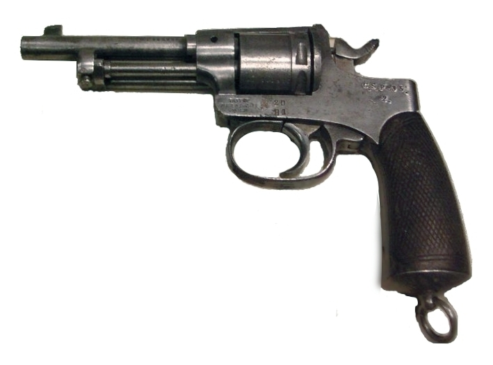 Rast & Gasser M1898, service revolver of the Austro-Hungarian Army